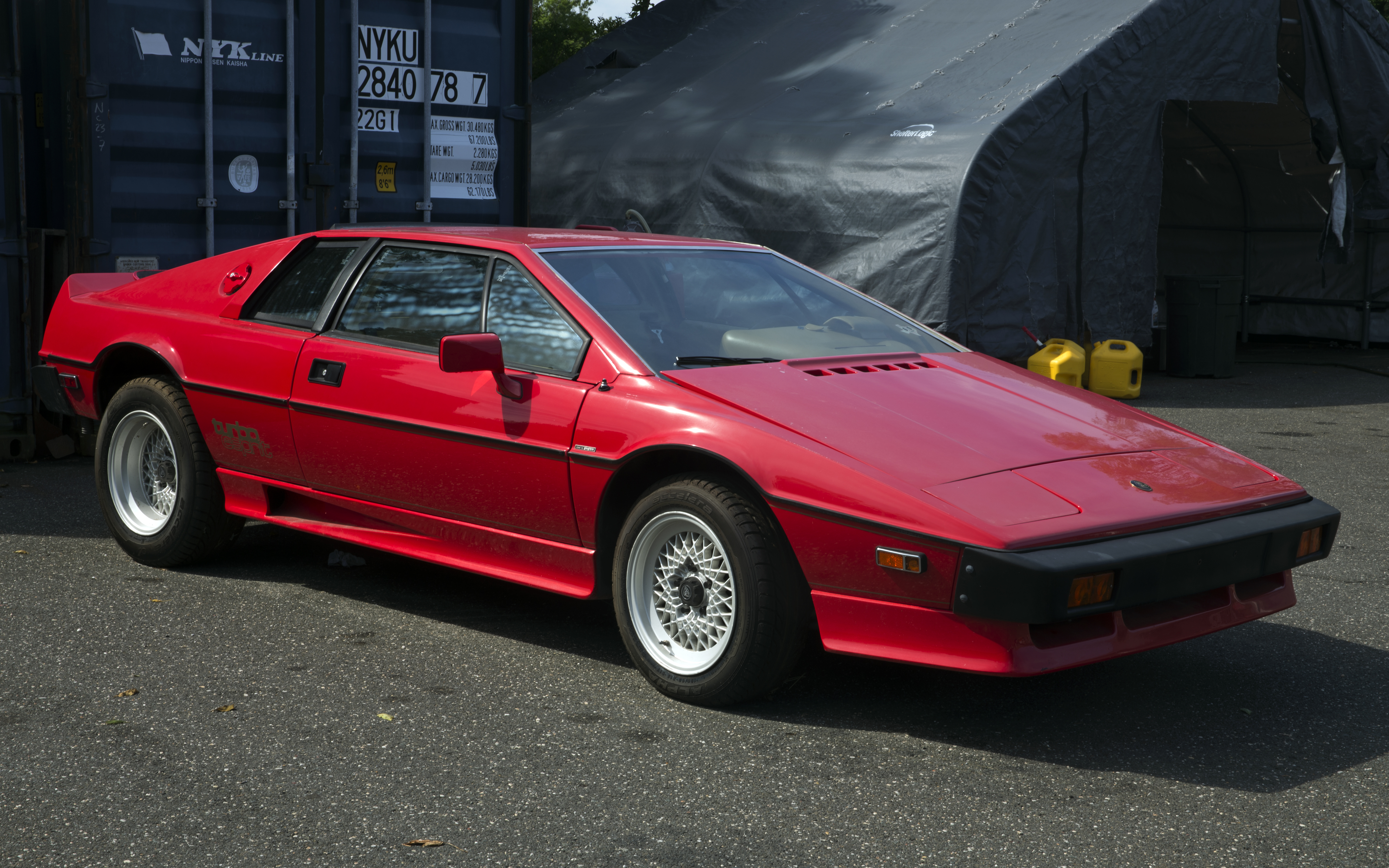 1985 Lotus Turbo Esprit, undergoing restoration. Texas car, currently without its engine and with no seats, various parts held on by pop rivets. Looked good at five car lengths, though, and should be amazing by next summer.